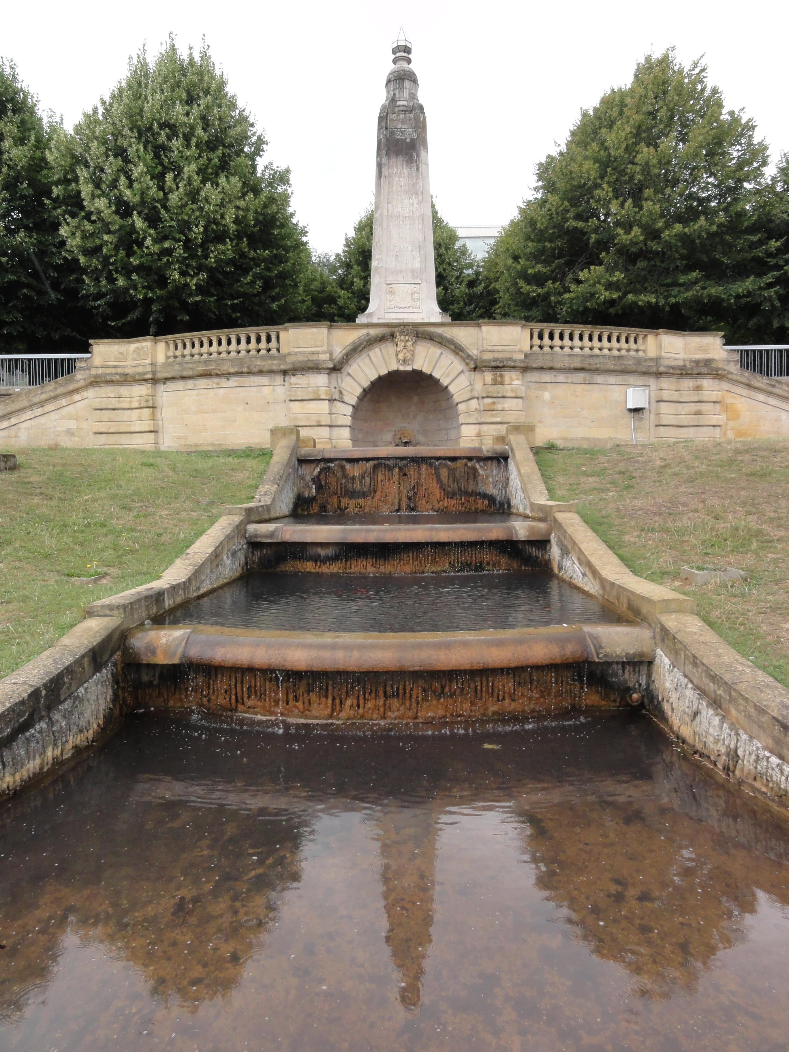 Longwy (Meurthe-et-M.) monument aux morts